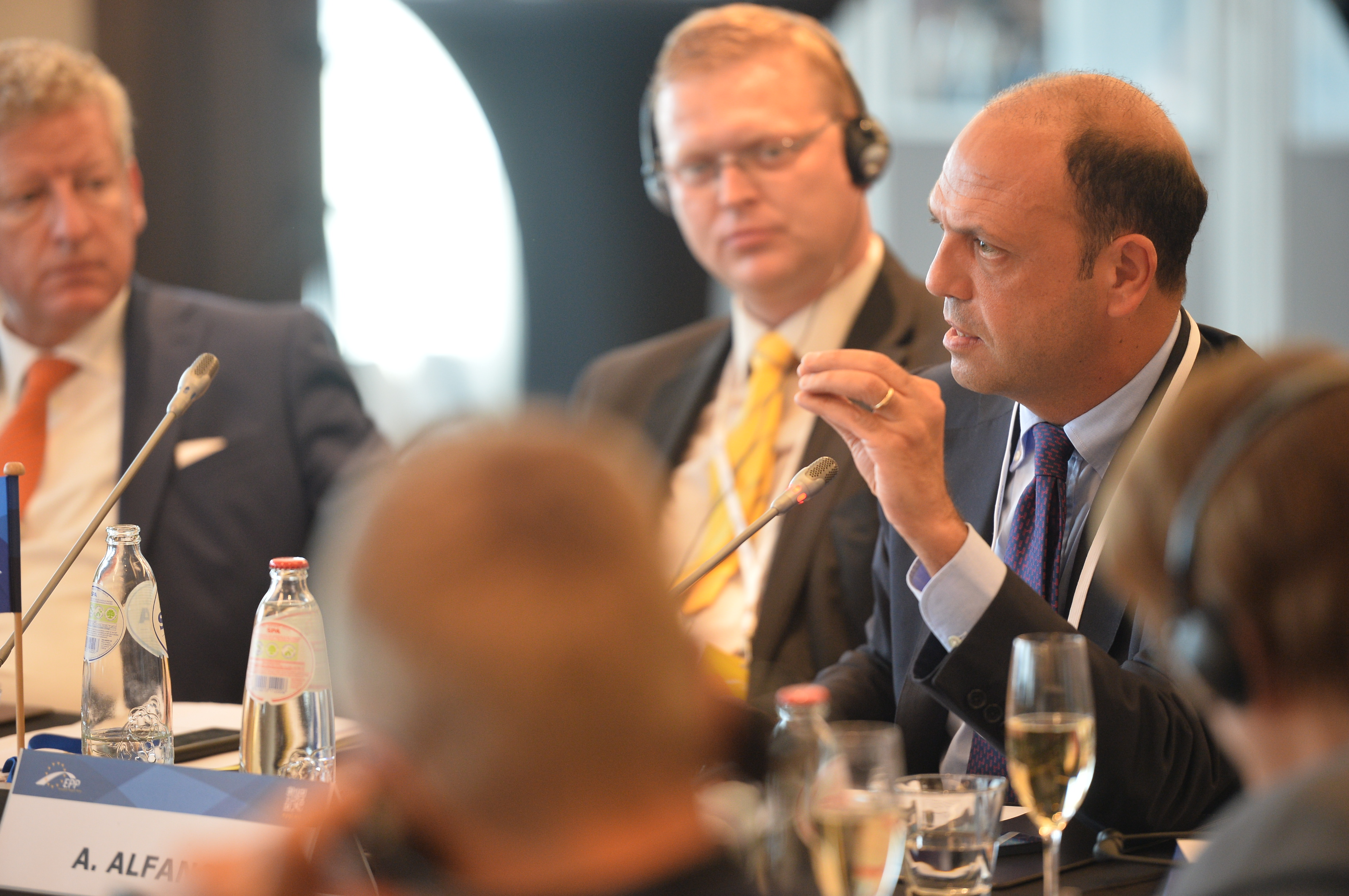 European People's Party Summit in Brussels in July 2014 in preparation of the European Council meeting